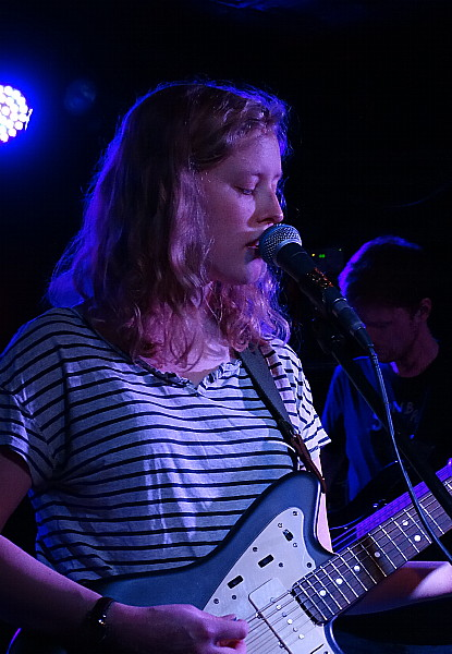 Kerry Alexander of Bad Bad Hats performing at The Saint in Asbury Park, NJ, May 15, 2019. Photo by LH Collins.